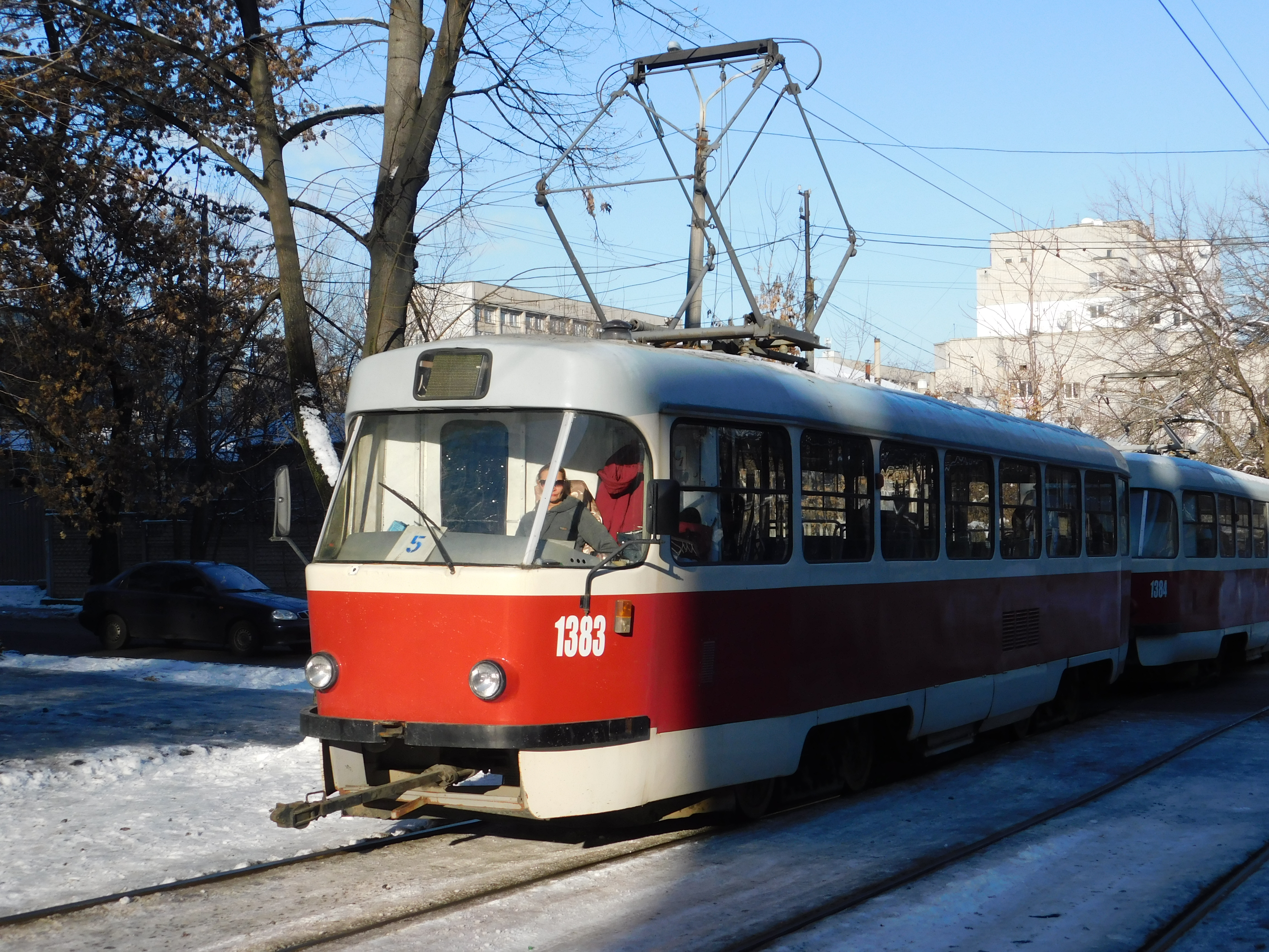 Front of Tatra T3 numbered 1383 in Dnipro